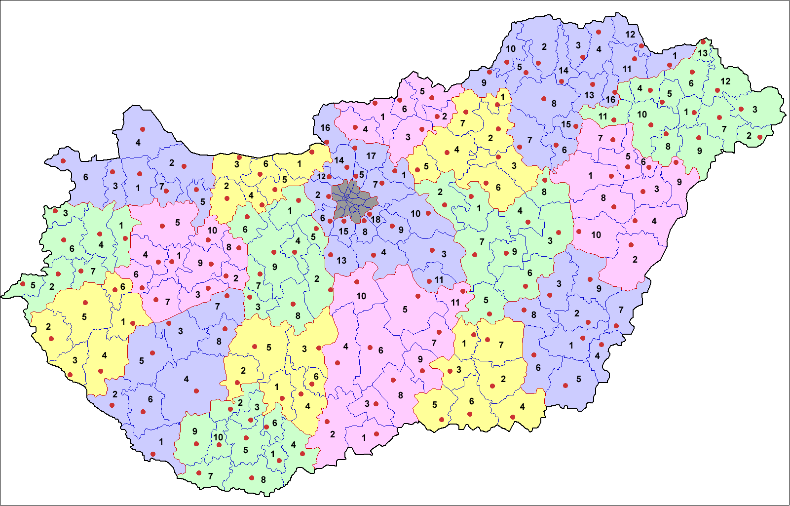 Townships of Hungary